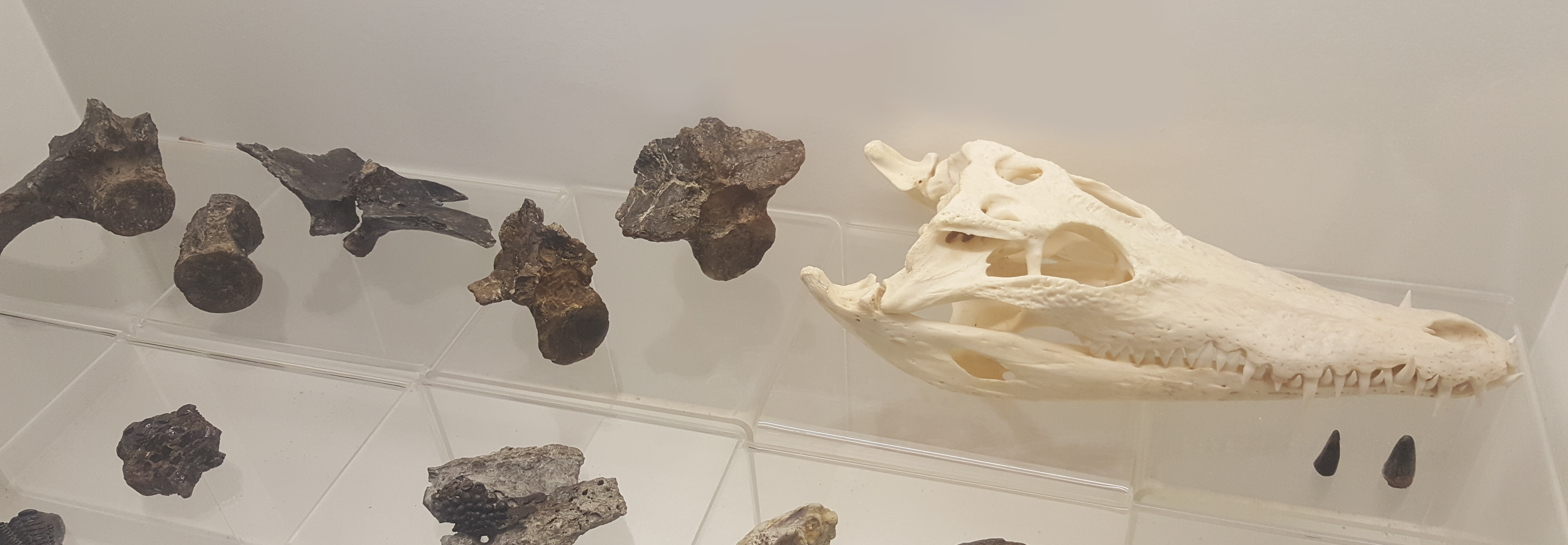 Isolated Anteophthalmosuchus remains discovered from the wessex formation with reconstruction of the head.